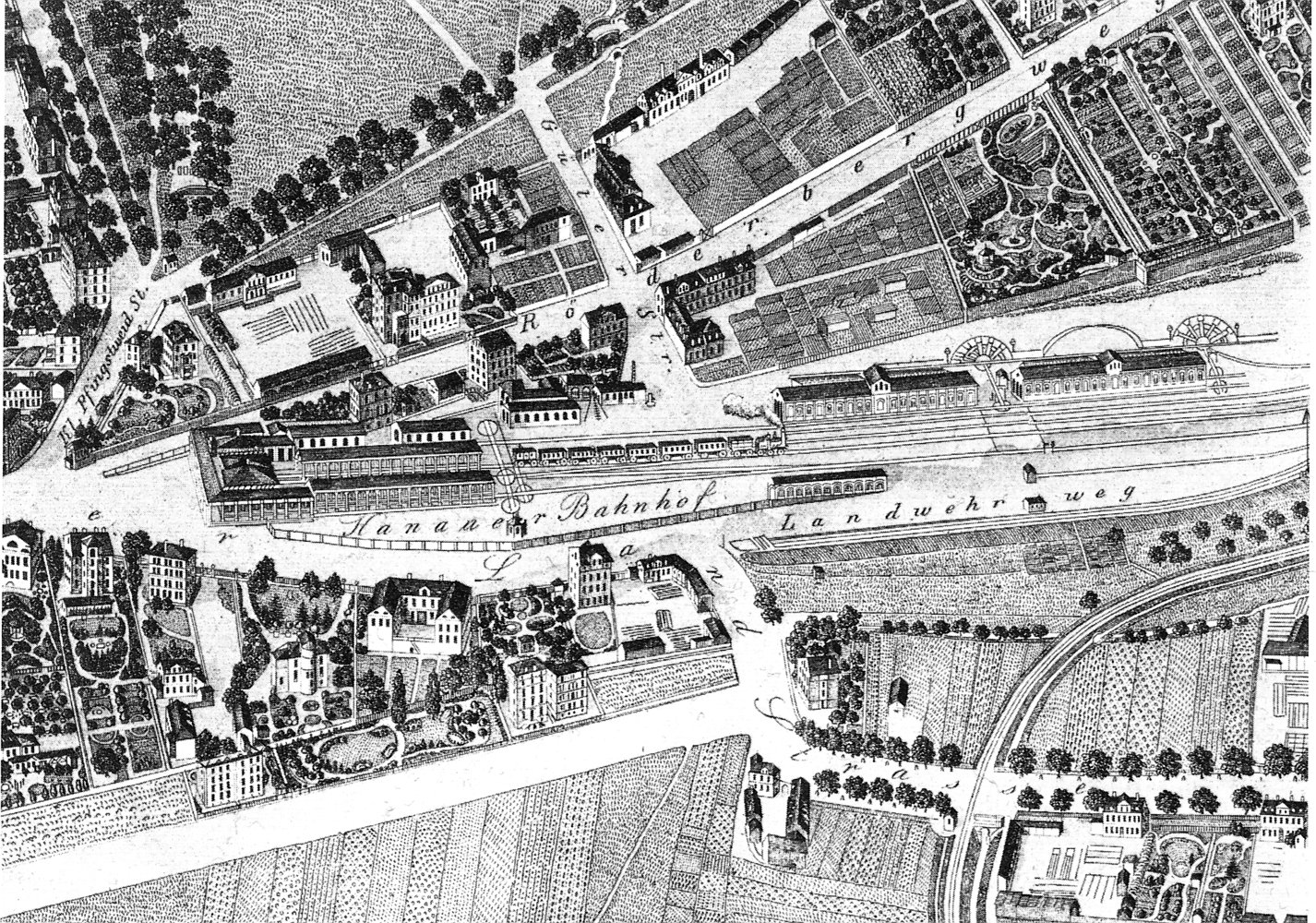 The Hanau station in eastern Frankfurt on the Delkeskamp map dating 1864